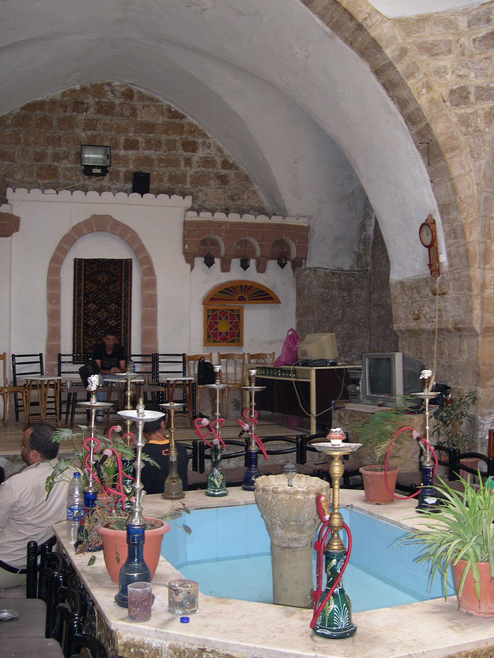 the al-shifa bath in nablus' old city. it is almost 400 years old and is still in use. we did not, however, use it.